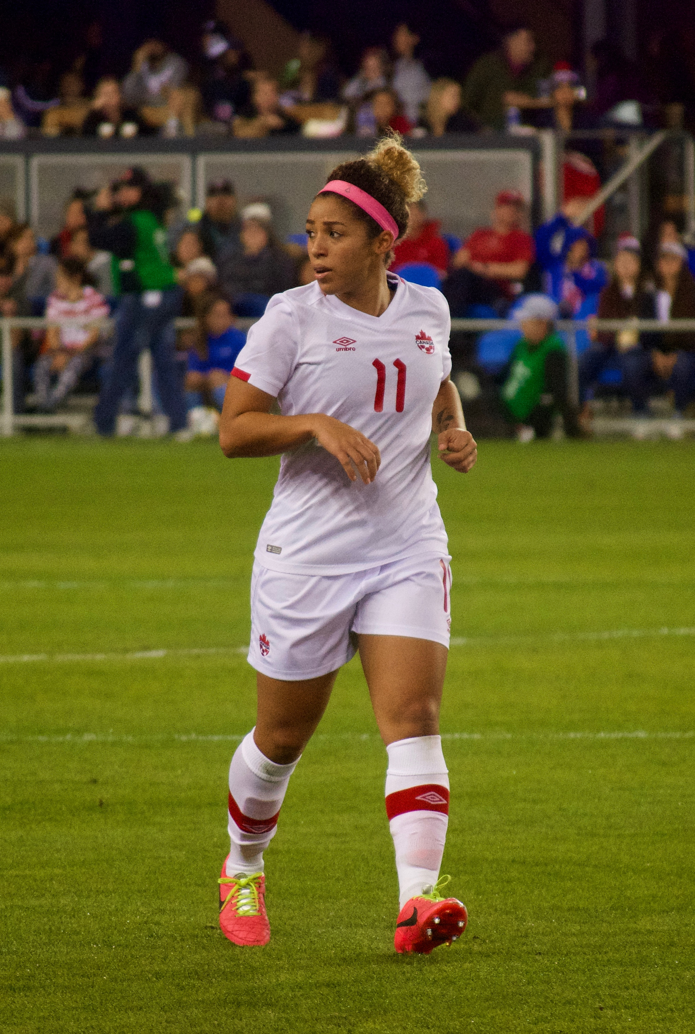 Desiree Scott playing in a friendly match at Avaya Stadium, San Jose, California, on 12 Nov 2017.